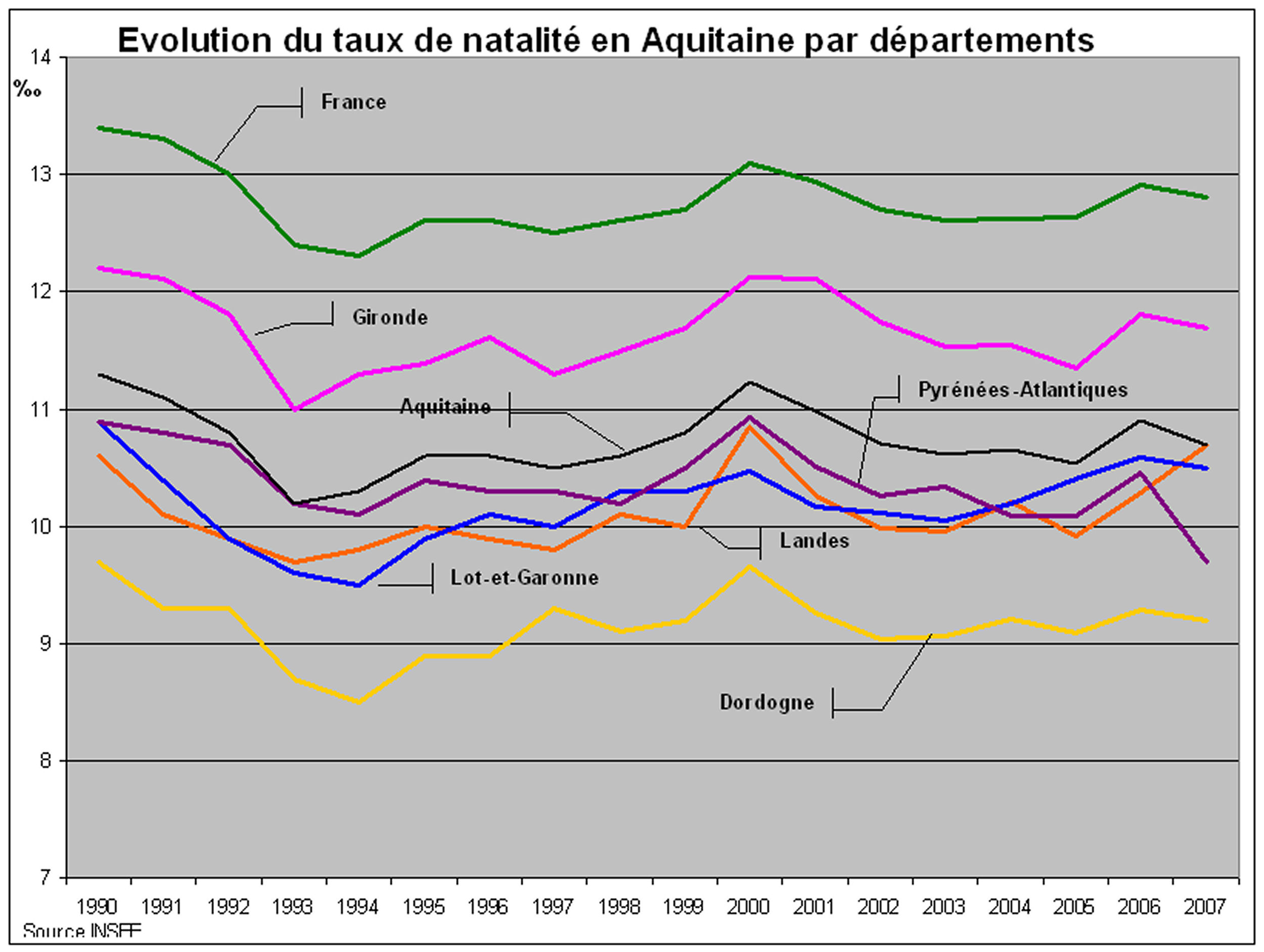 Changes in birth rates by departments in Aquitaine